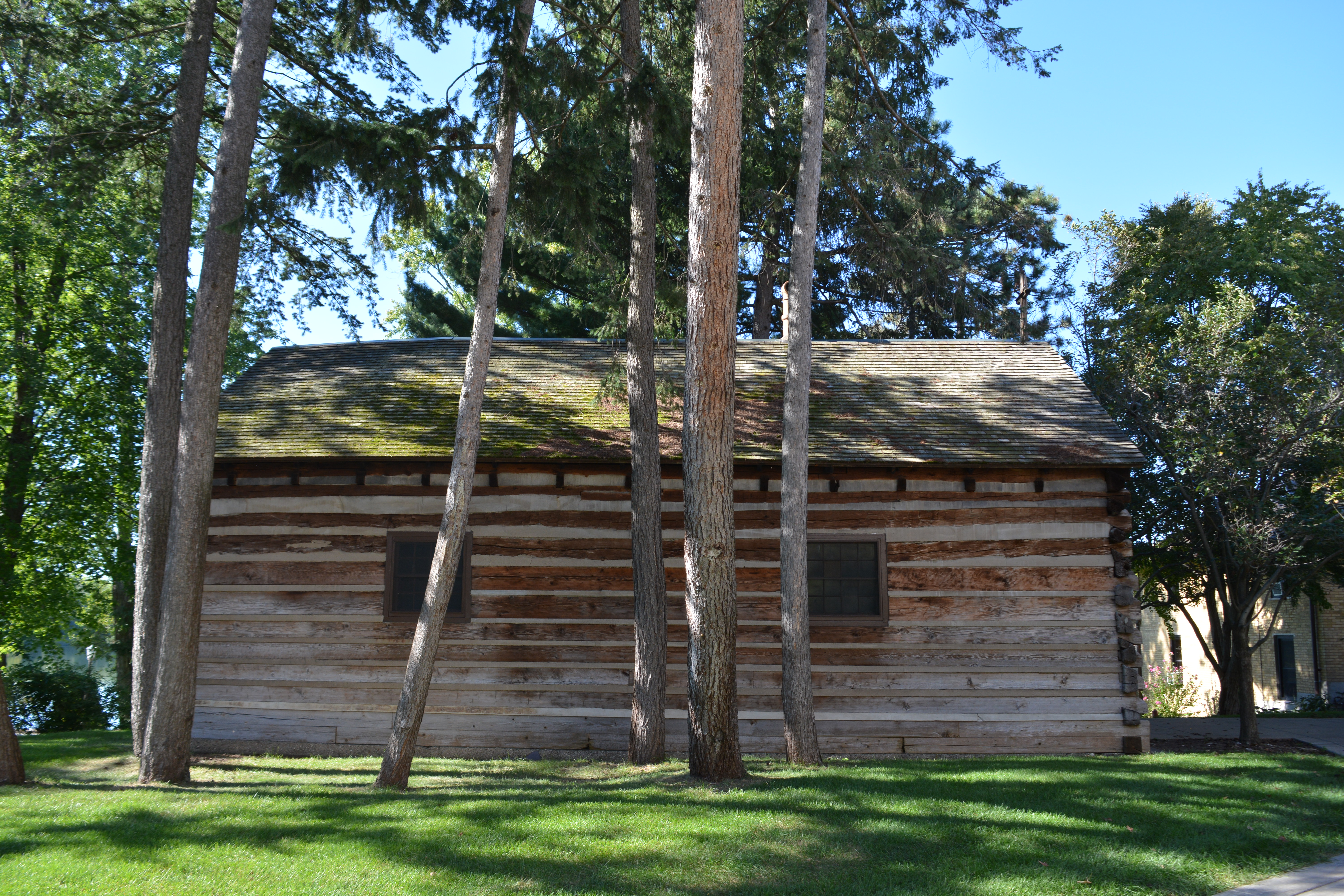 Campus of the University of Notre Dame